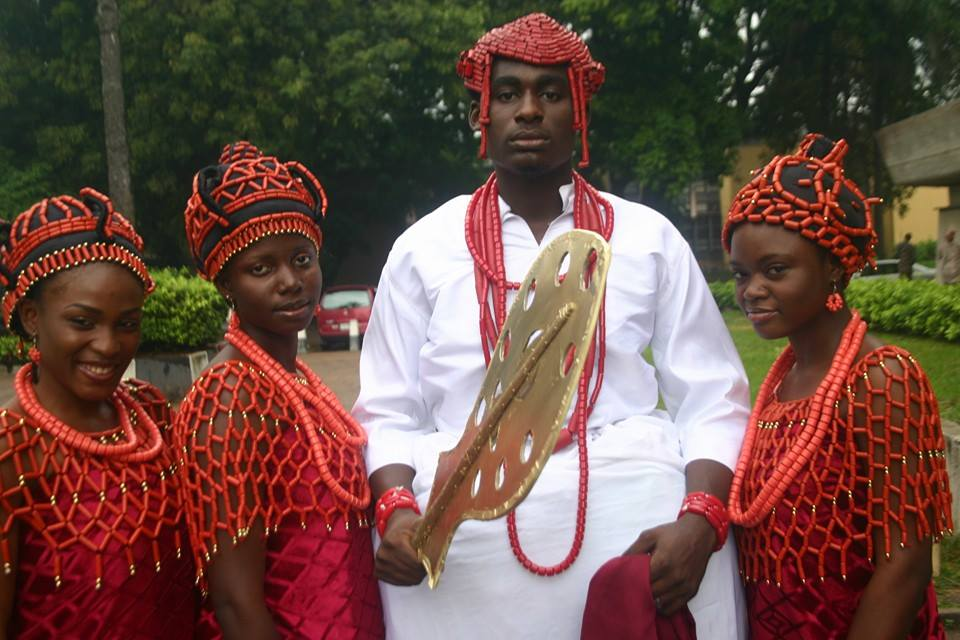 Nigerian traditonal royal native wears of the Benin people of Edo state. The Benin King and his wives This is an image of Cultural Fashion or Adornment from Nigeria